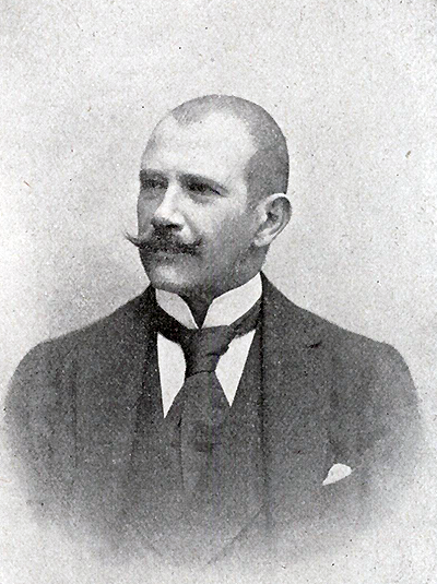 Image scanned from magazine Hvar8Dag.